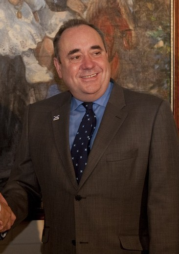 Alex Salmond